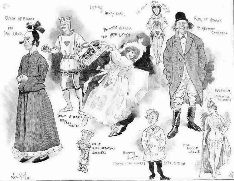 A sketch by the illustrator Phil May from 1891 of various pantomime characters at the Theatre Royal, Drury Lane.